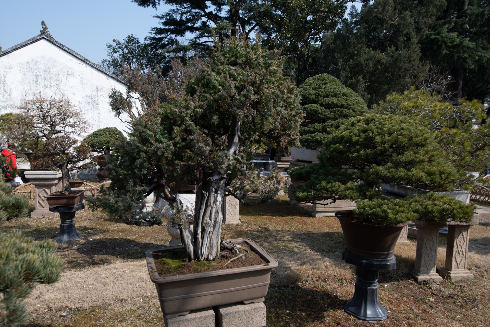 Bonsai Garden（Baijia Alley） Gusu Qu, Suzhou Shi, Jiangsu Sheng, China, 215000